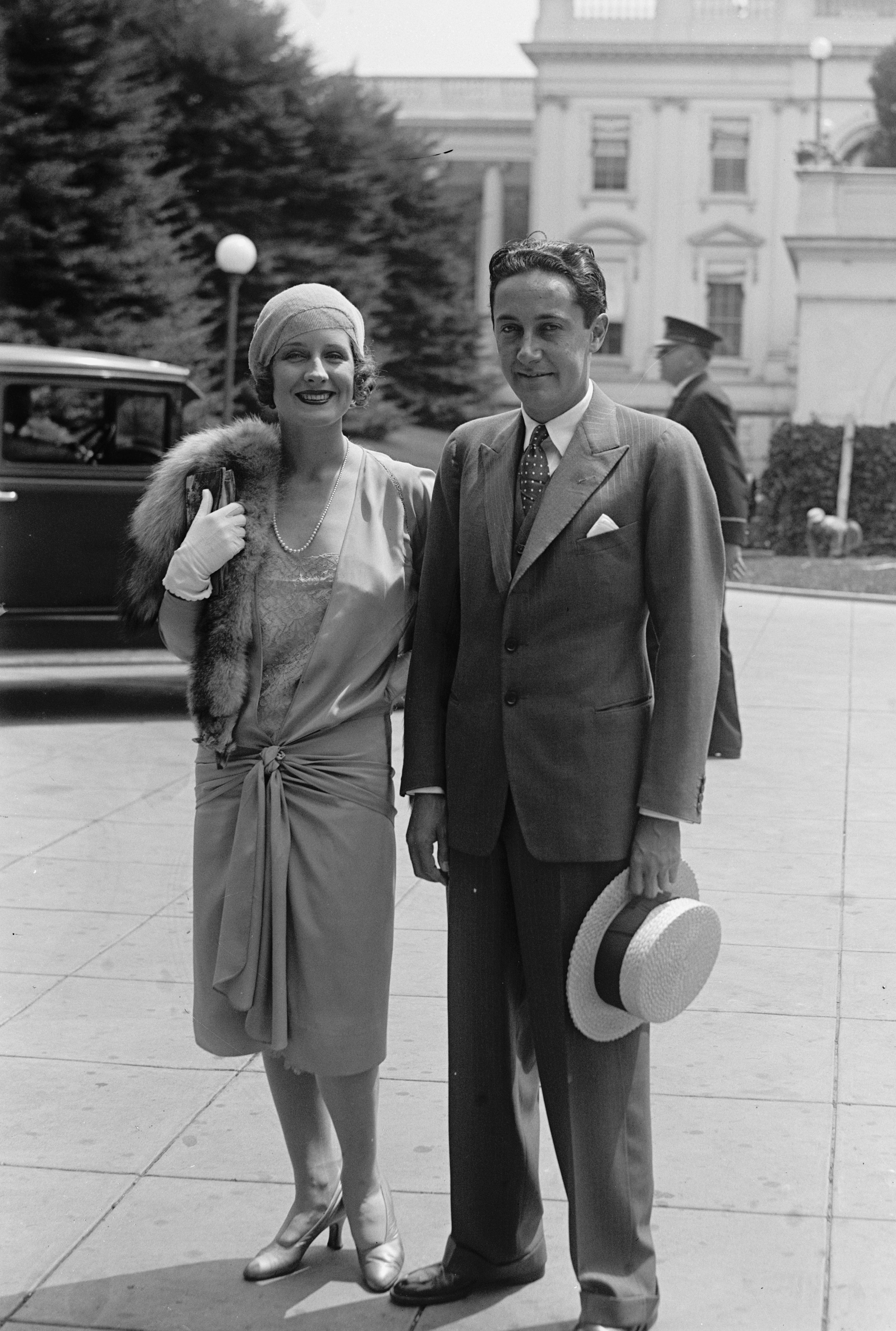 Mr. and Mrs. Irving Thalberg (Norma Shearer), 7/24/29